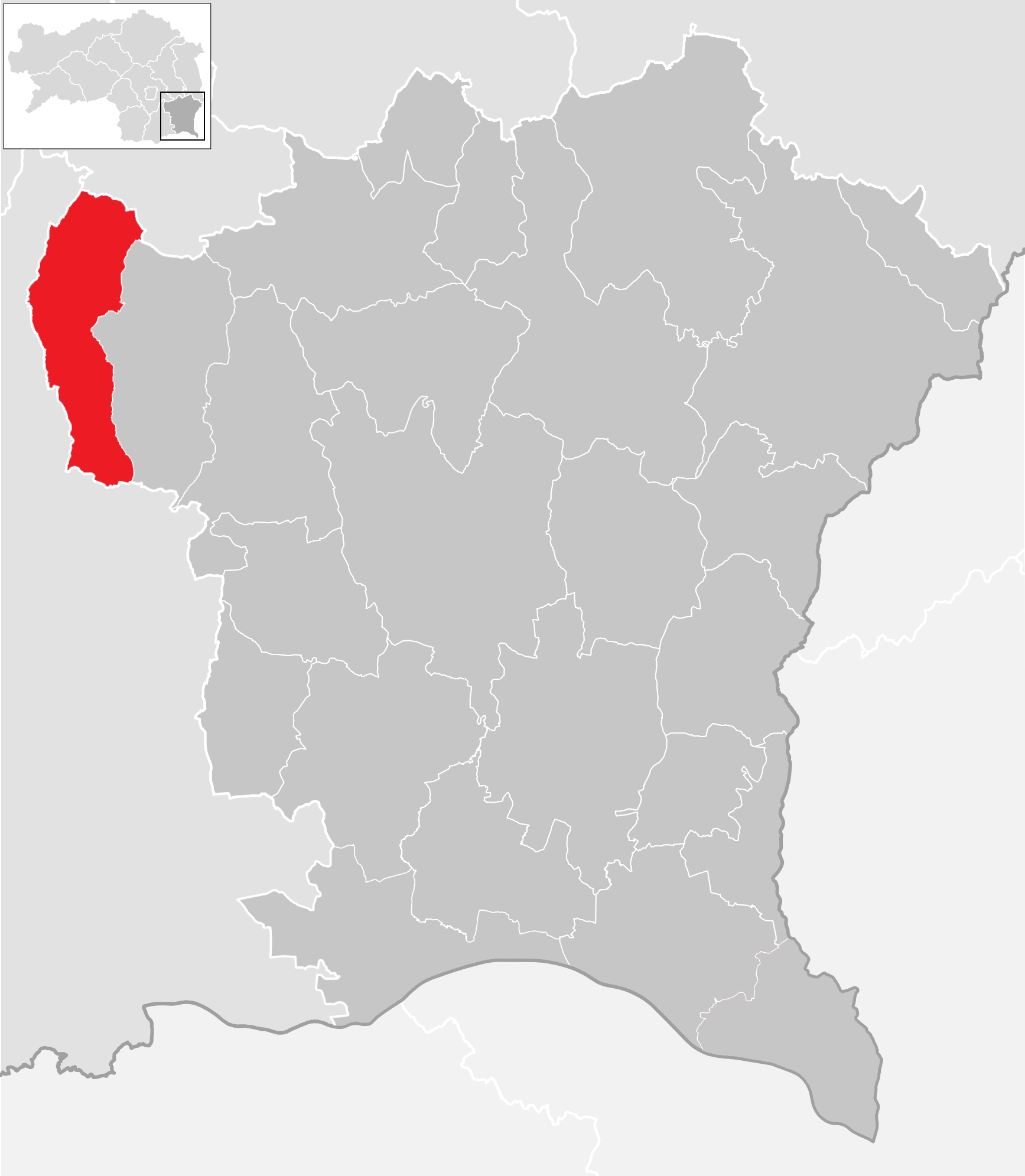 district Südoststeiermark